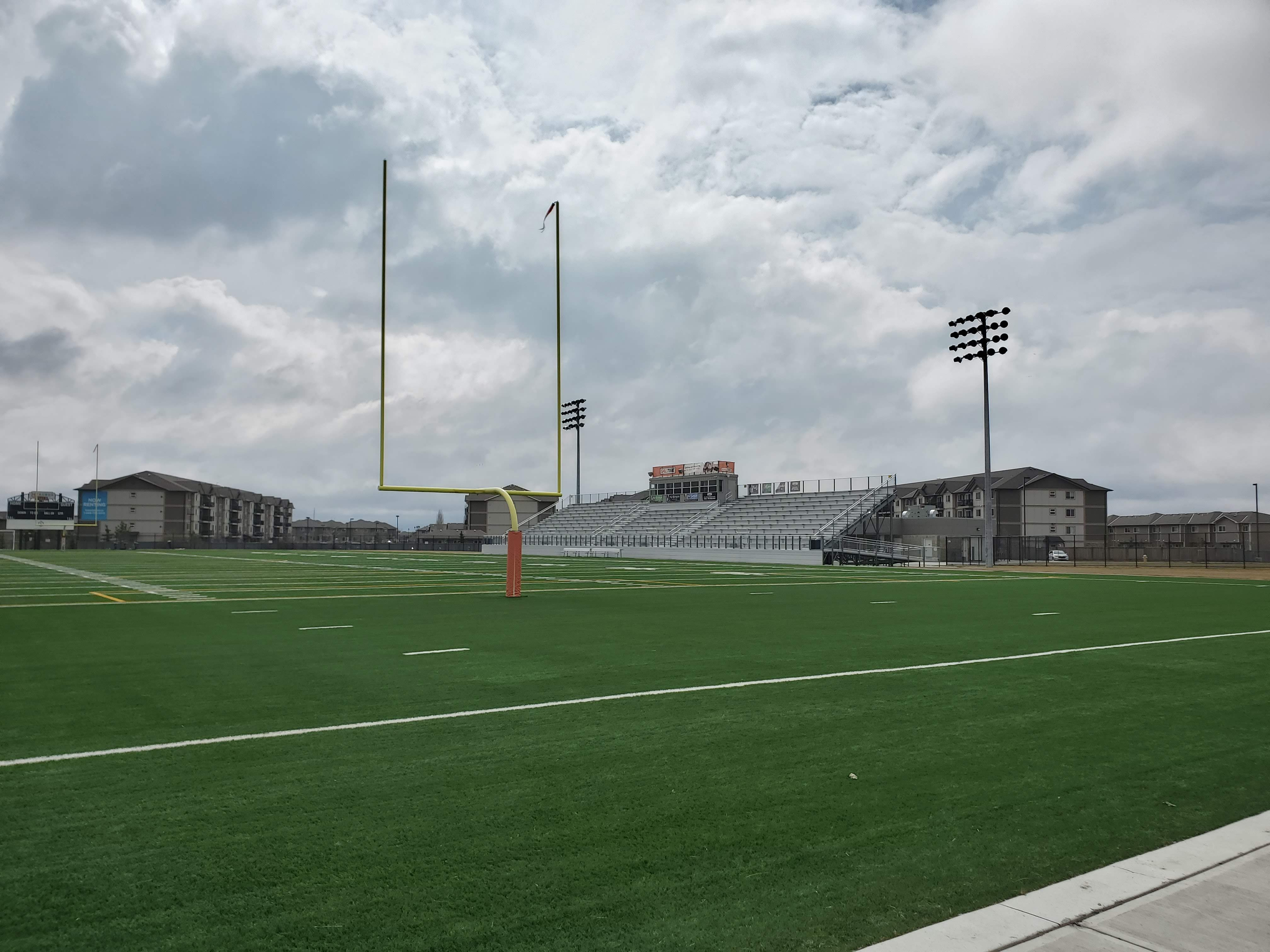 Taurus Field